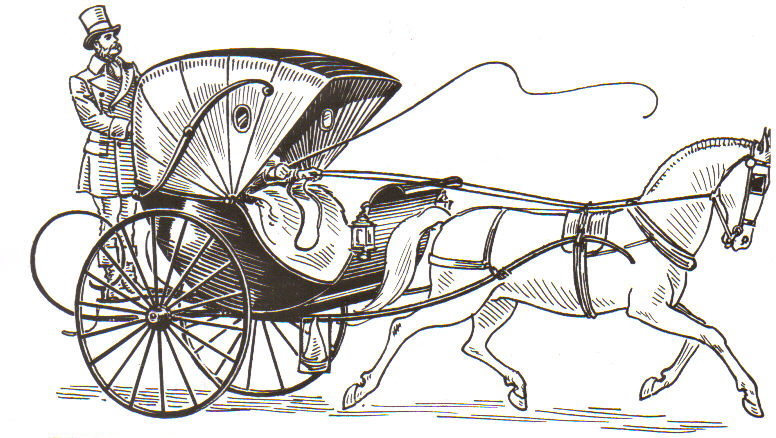 line art drawing of cabriolet.